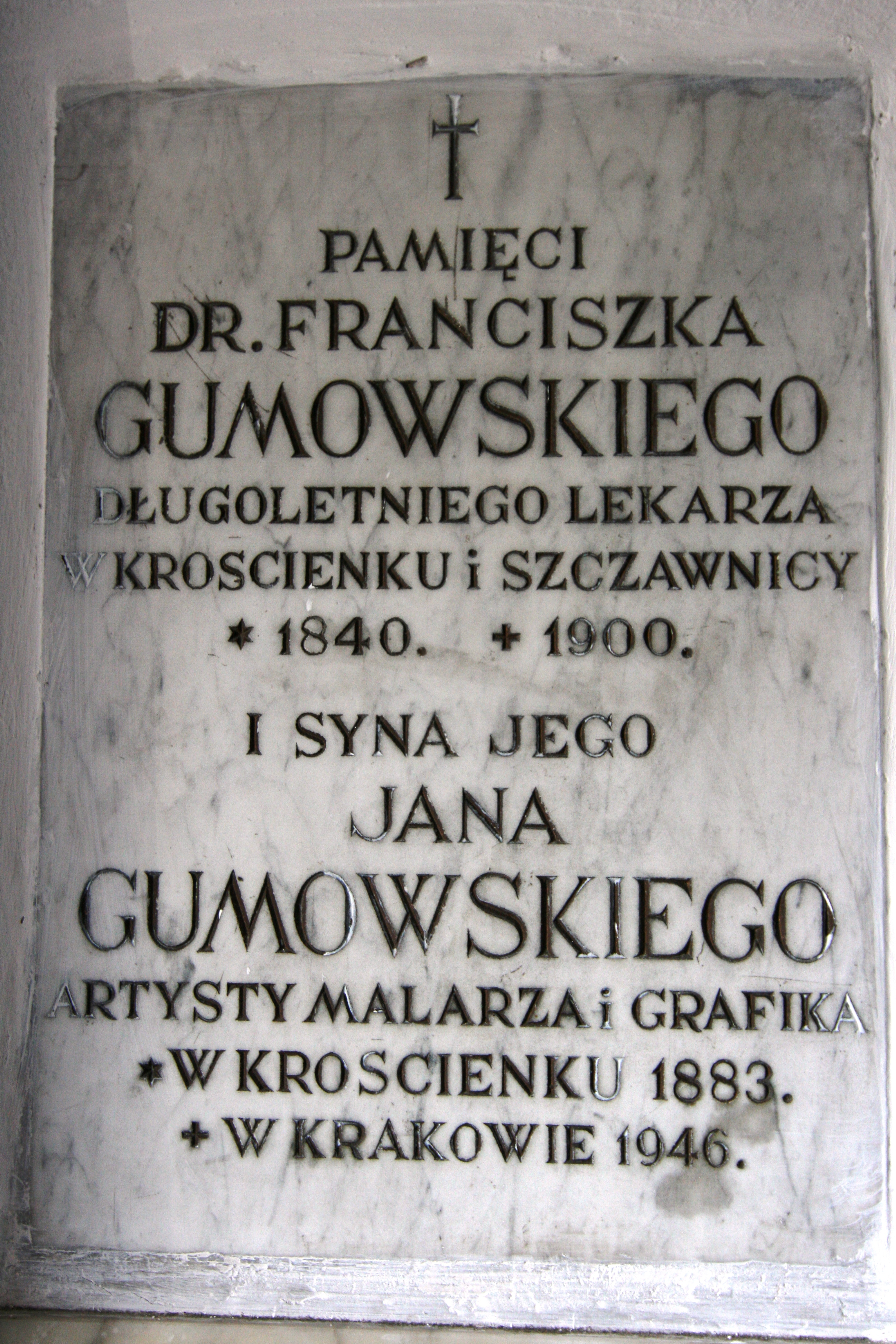 All Saints Church in Krościenko nad Dunajcem (Poland) – commemorative plaque in the church entrance 3